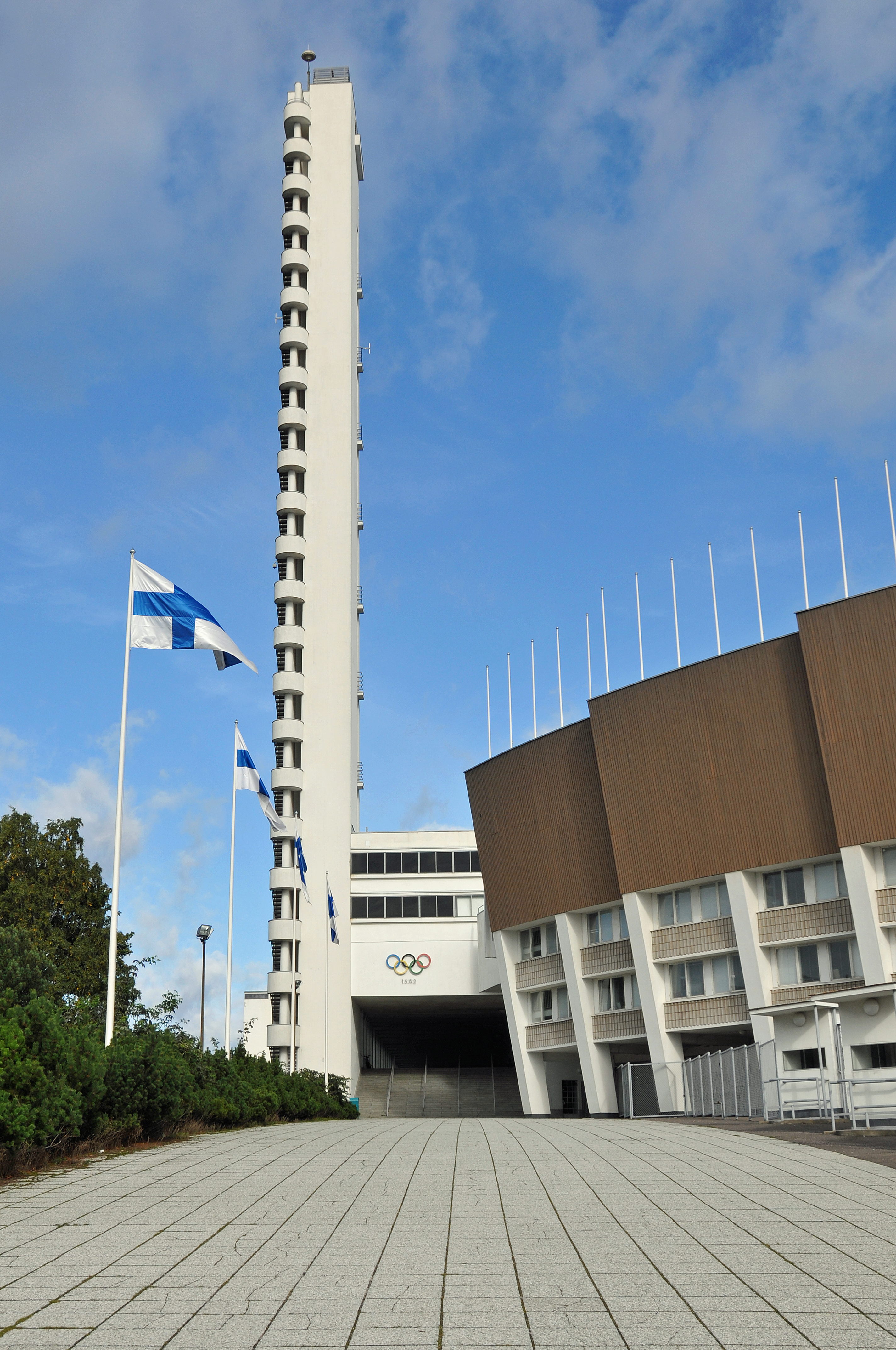 PLEASE, no multi invitations in your comments. Thanks. I AM POSTING MANY DO NOT FEEL YOU HAVE TO COMMENT ON ALL - JUST ENJOY. The Games of the XV Olympiad were celebrated in Helsinki from 19 July to 3 August 1952. Helsinki had expected to host the 1940 Olympic Games, but those Games had to be cancelled because of World War II. The most unforgettable moment of the Opening Ceremony was the entry of the Olympic flame. When the name of Paavo Nurmi flashed on the electric scoreboard, the Stadium was filled with thunderous applause. Athletes broke ranks in the infield to catch a glimpse of the legendary runner. Paavo Nurmi lit the Olympic flame in a cauldron on the field.